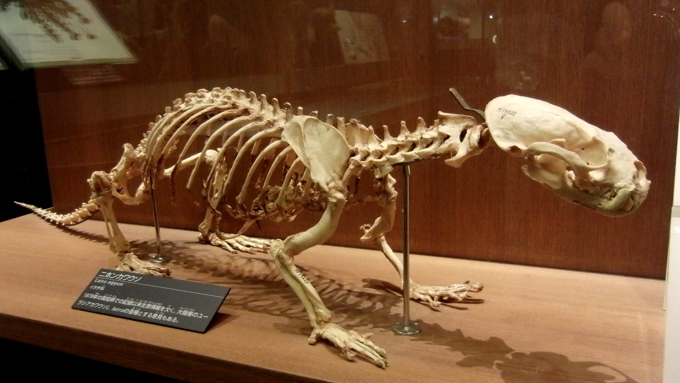 Skelton of Japanese river otter (Lutra nippon). Exhibit in the National Museum of Nature and Science, Tokyo, Japan.